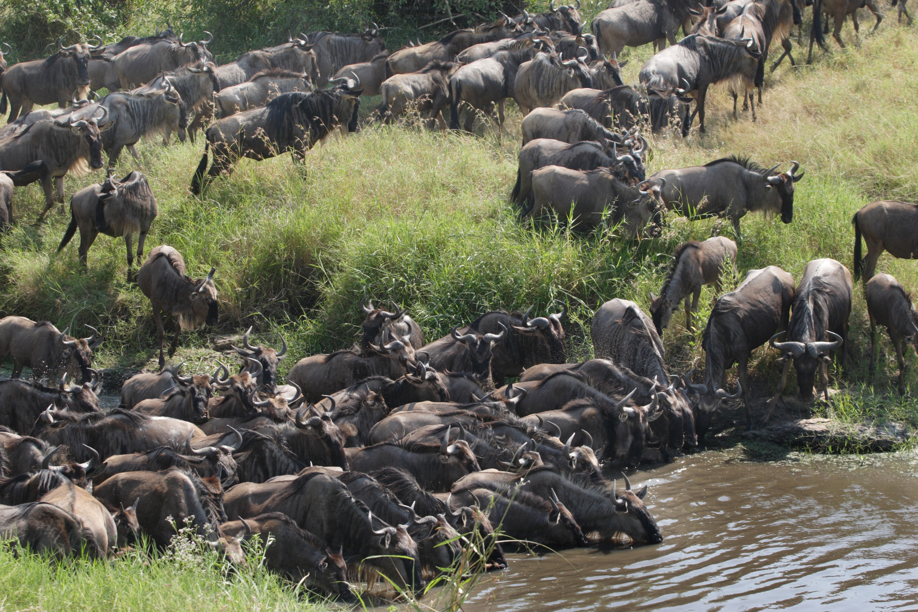 A large group of wildebeest have made a stop at their annual migration to drink from the river water in the Grumeti river in western Serengeti.Photo by:Jan Fleischmann